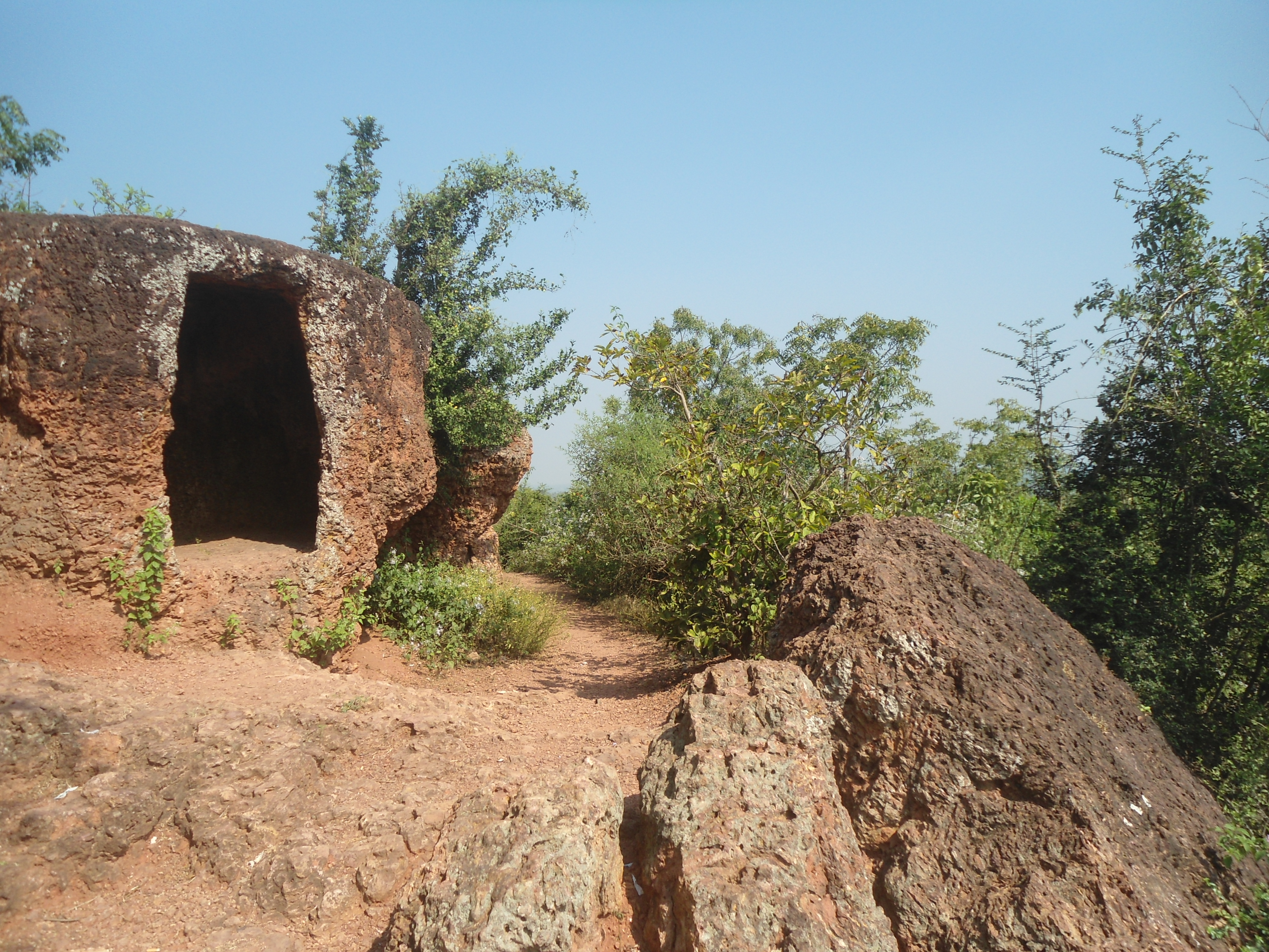 Pandavula Metta caves, Peddapuram, East Godavari